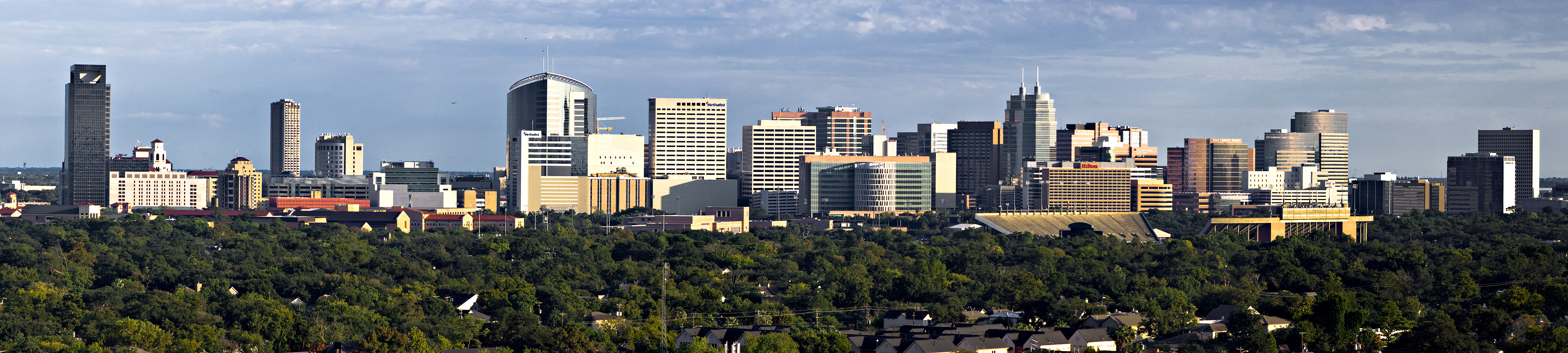 Panoramic Skyline of the Texas Medical Center - Houston, TX